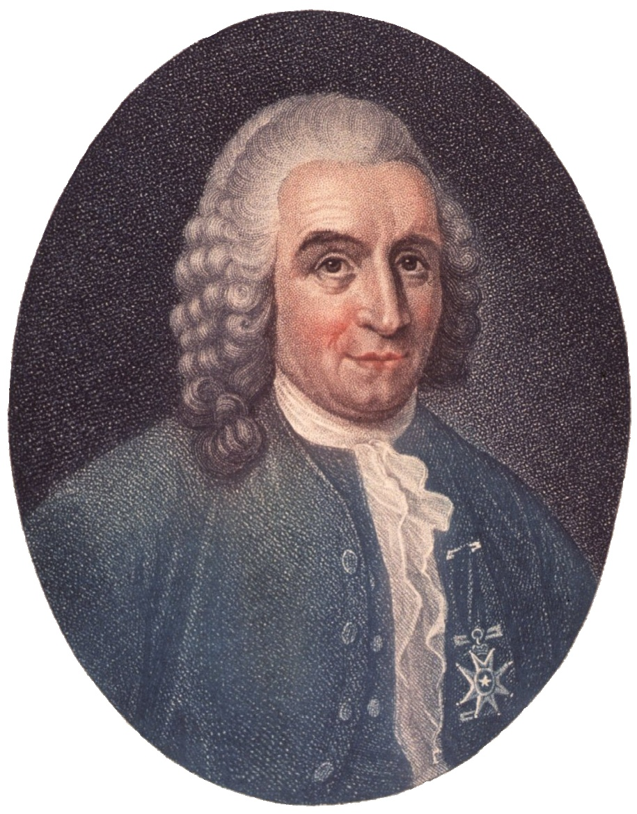 Portrait of Carl von Linné. Images from the History of Medicine.